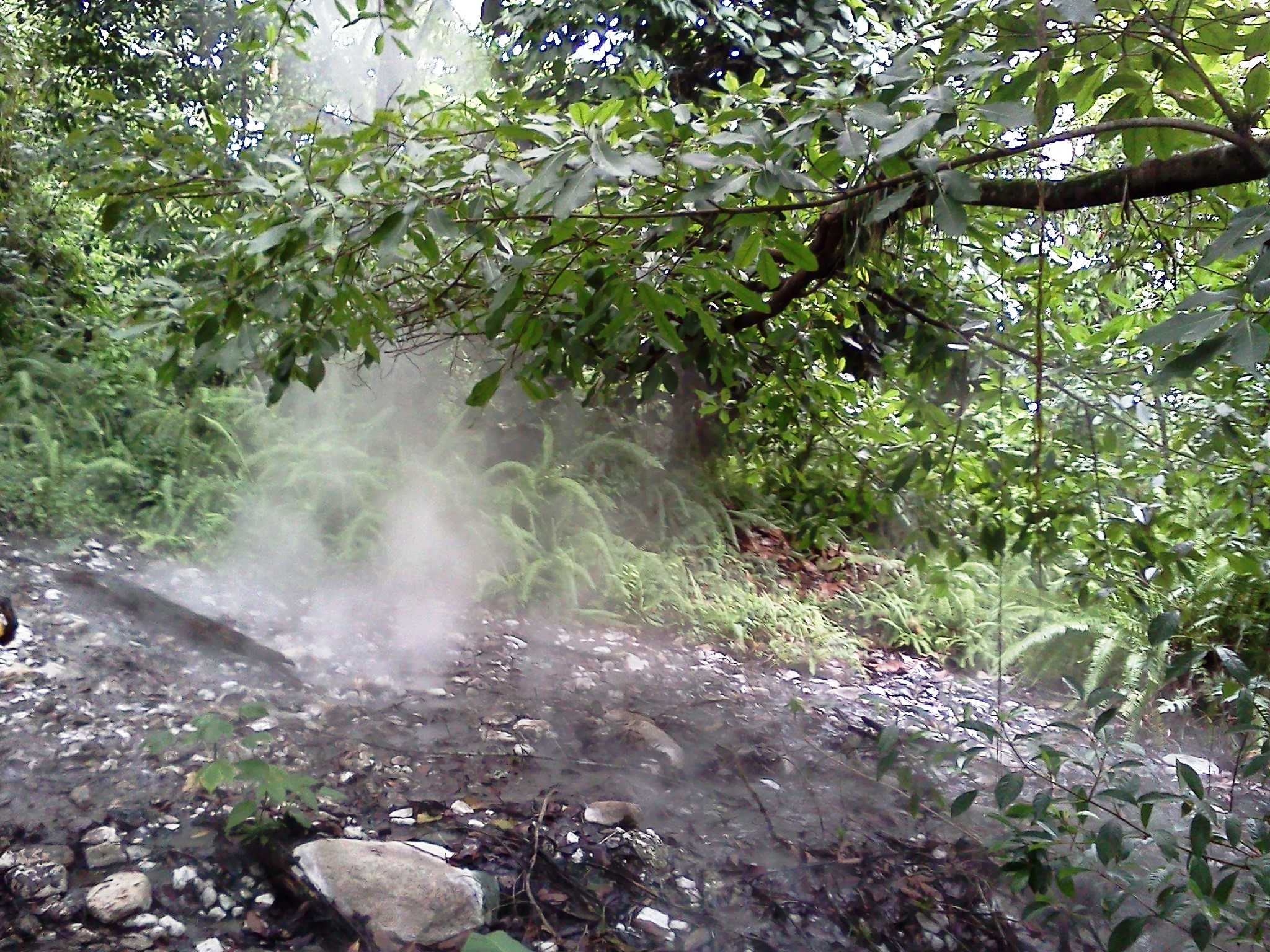 Hot springs